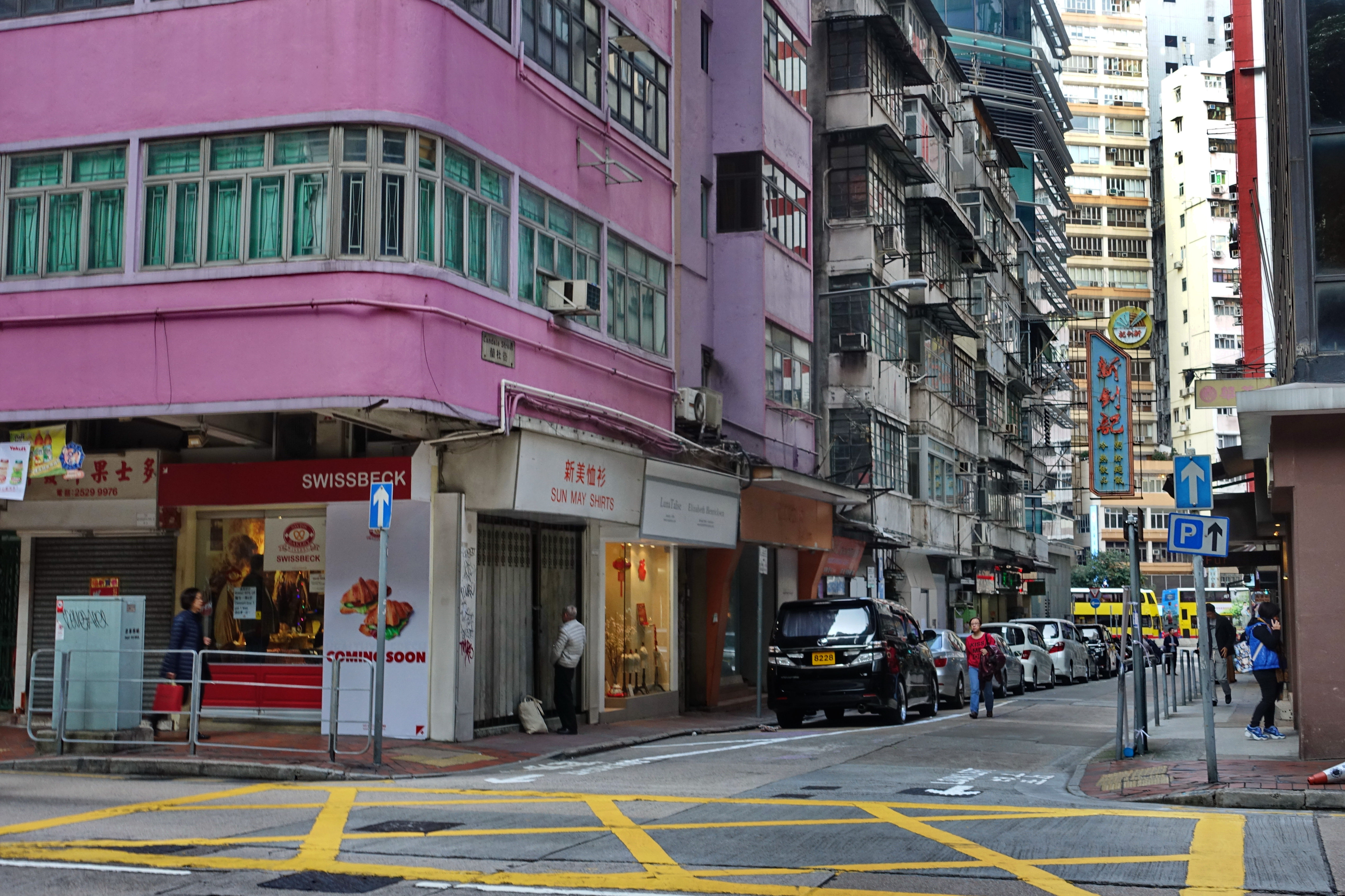 Landale Street, Wan Chai, Hong Kong